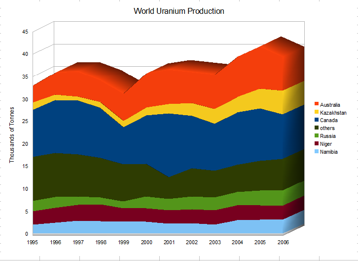 Graph of World Uranium Production using data from UxC Consulting Company, LLC, picking only the largest producers. I converted from millions of pounds U3O8 to thousands of tonnes U308 using a spreadsheet and chart tool in OpenOffice Calc and saved in png format.